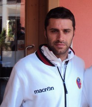 morleo